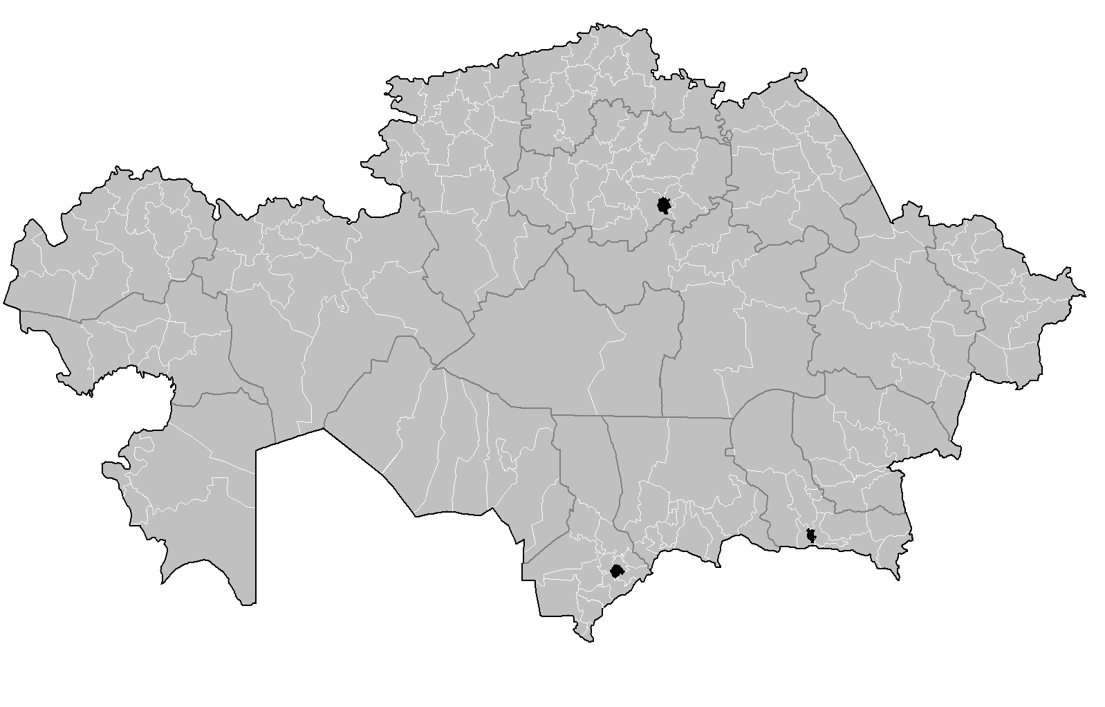 Map of the rayons of Kazakhstan. Created by Rarelibra 16:49, 3 August 2007 (UTC) for public domain use, using MapInfo Professional v8.5 and various mapping resources.